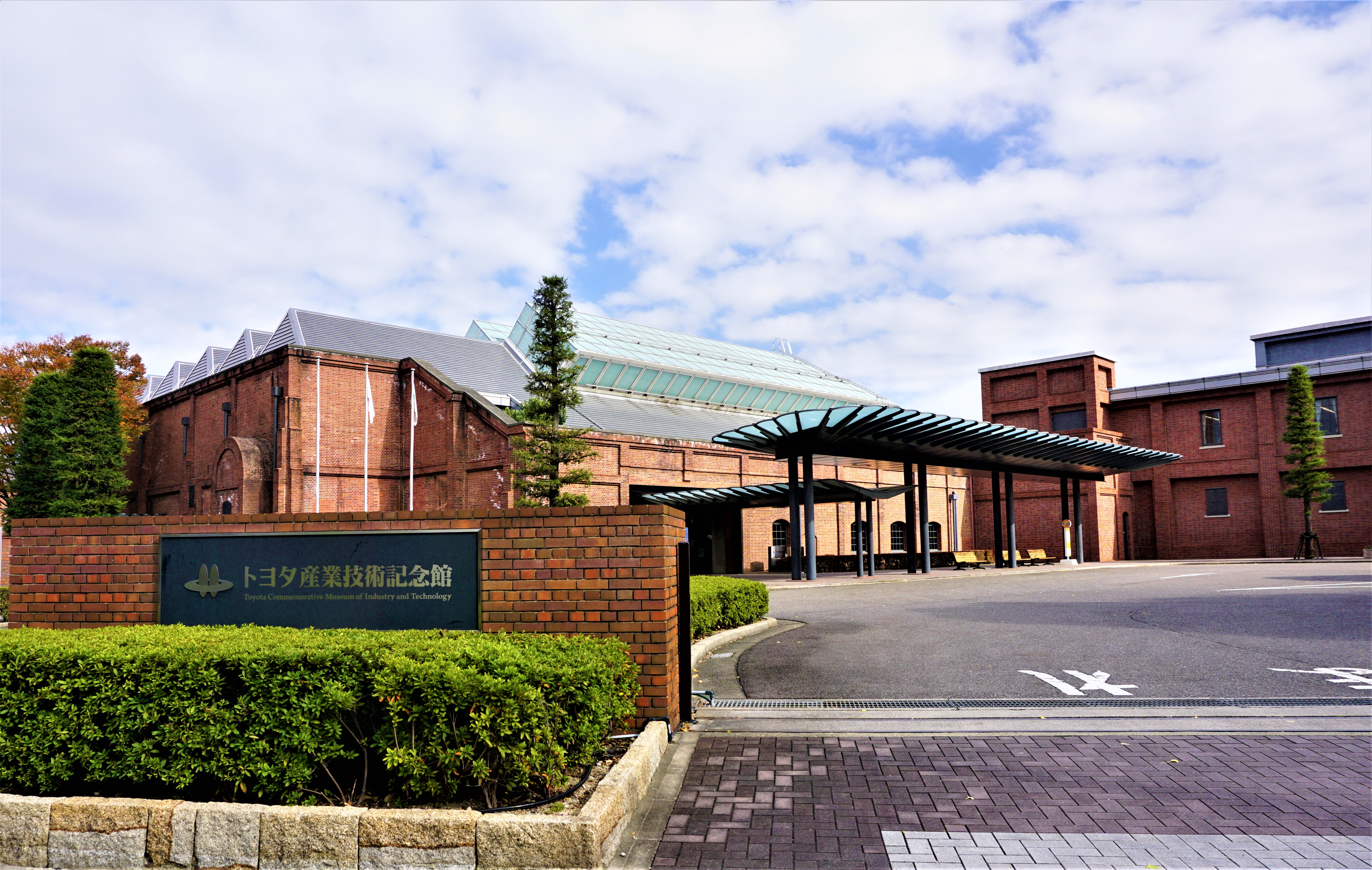 Toyota Commemorative Museum of Industry and Technology - Joy of Museums - for details